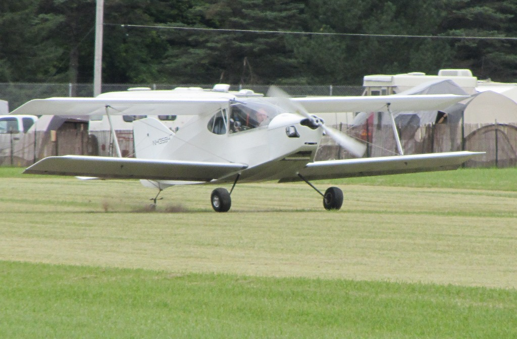 Sorrell Hyperlight